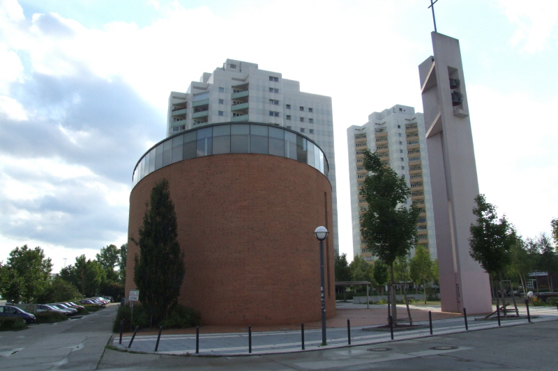 Church in Berlin-Wartenberg (new building in Hohenschönhausen)